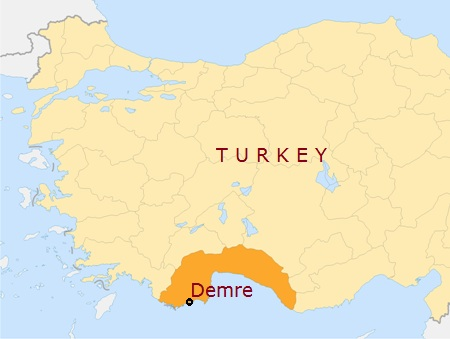 Demre location in Antalia province on a map of Turkey.